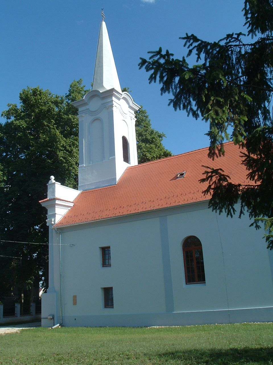 Lutheran Church in Nemeskolta, Hungary